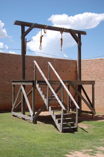 Replica gallows at Tombstone Courthouse State Historic Park, Arizona, USA